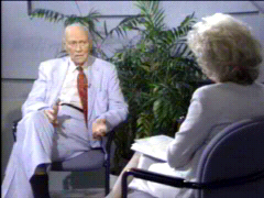 A picture of an interview of Roger O. Egeberg, taken by National Library of Medicine, whose materials are in public domain, as stated in this copyright information statement.